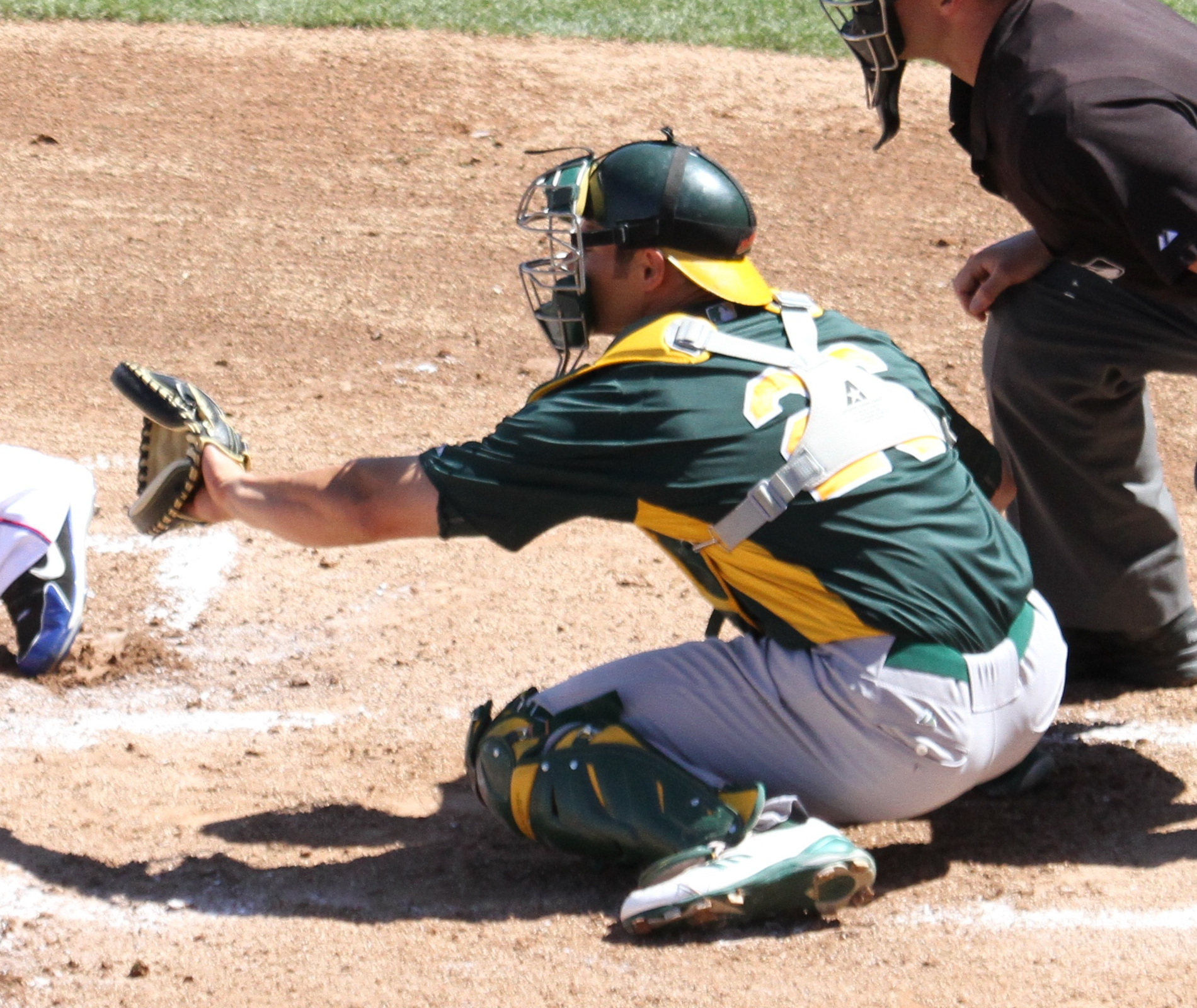 Anthony Recker